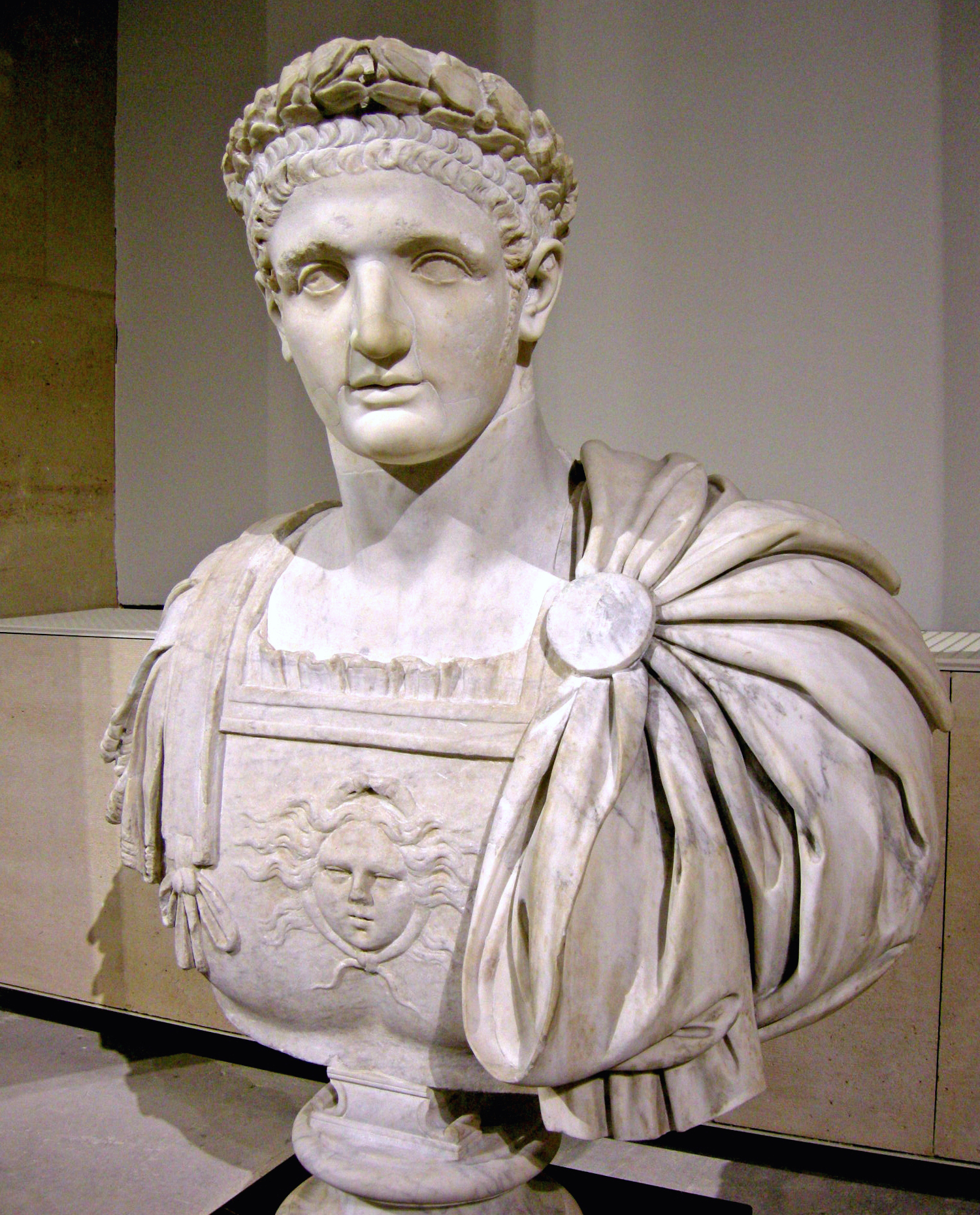 Bust of roman emperor Domitianus. Antique head, body added in the 18th century. Musée du Louvre (Ma 1264), Paris. Formerly in the Albani Collection in Rome.